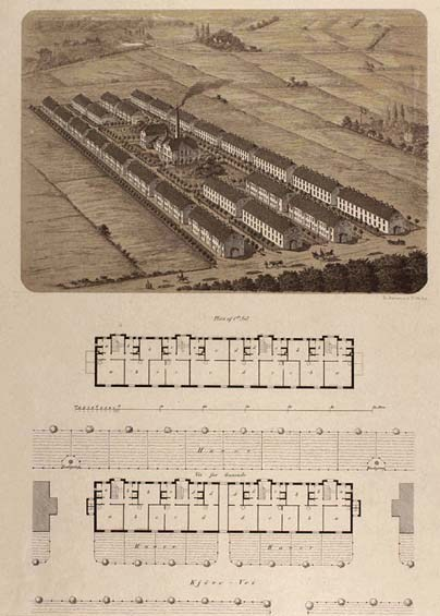 Classen's row houses (De Classenske Boliger) in Frederiksberg. Demolished.